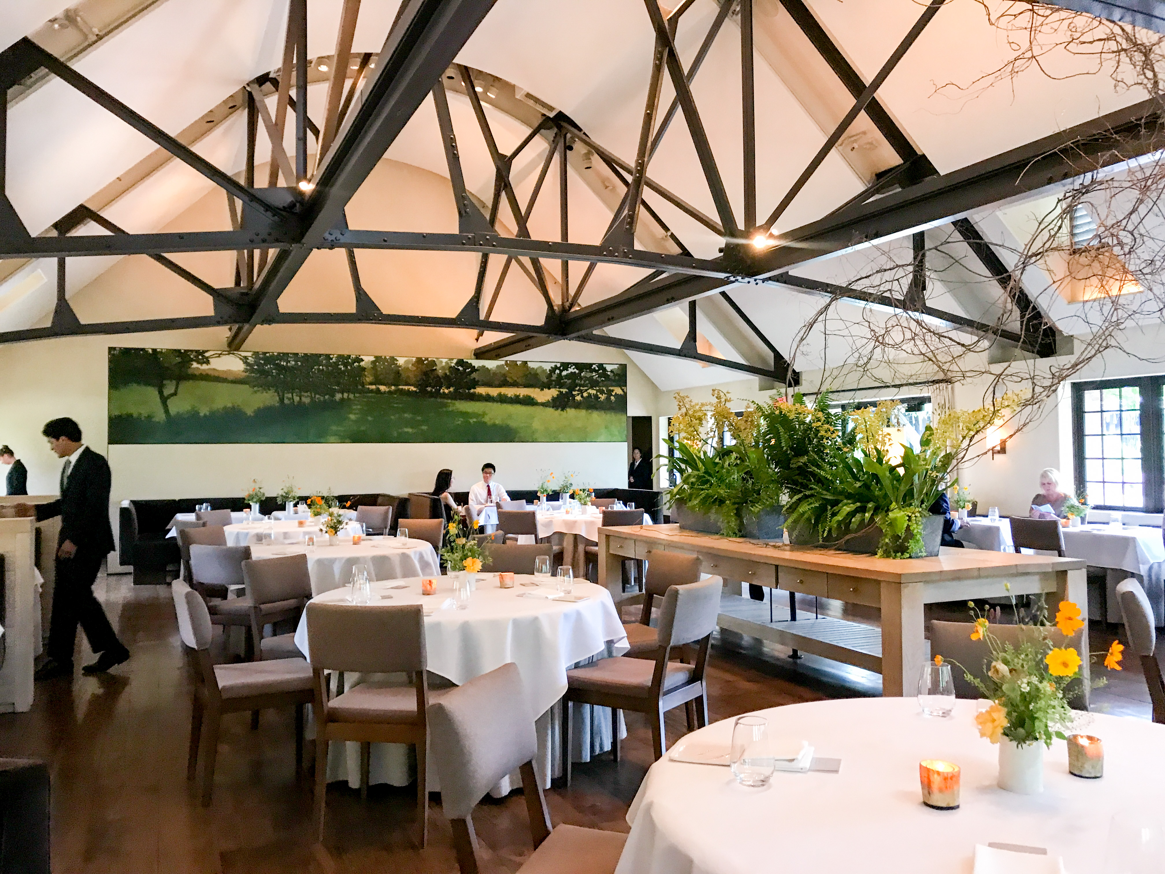 Blue Hill at Stone Barns | Pocantico Hills, NY | 07/20/17 Lou Stejskal Twitter | Facebook | Instagram